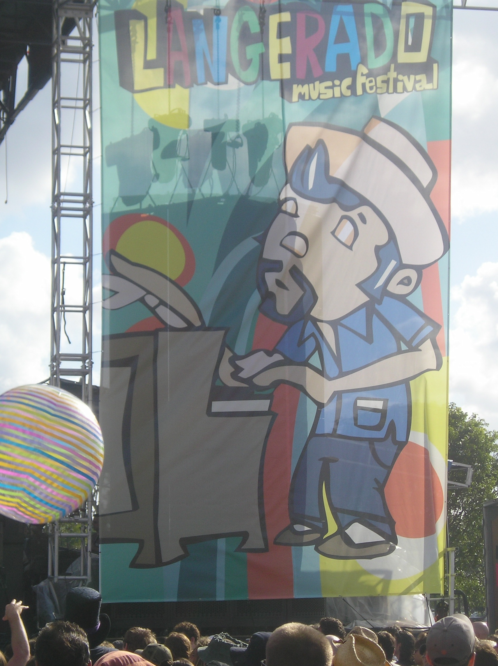 Langerado